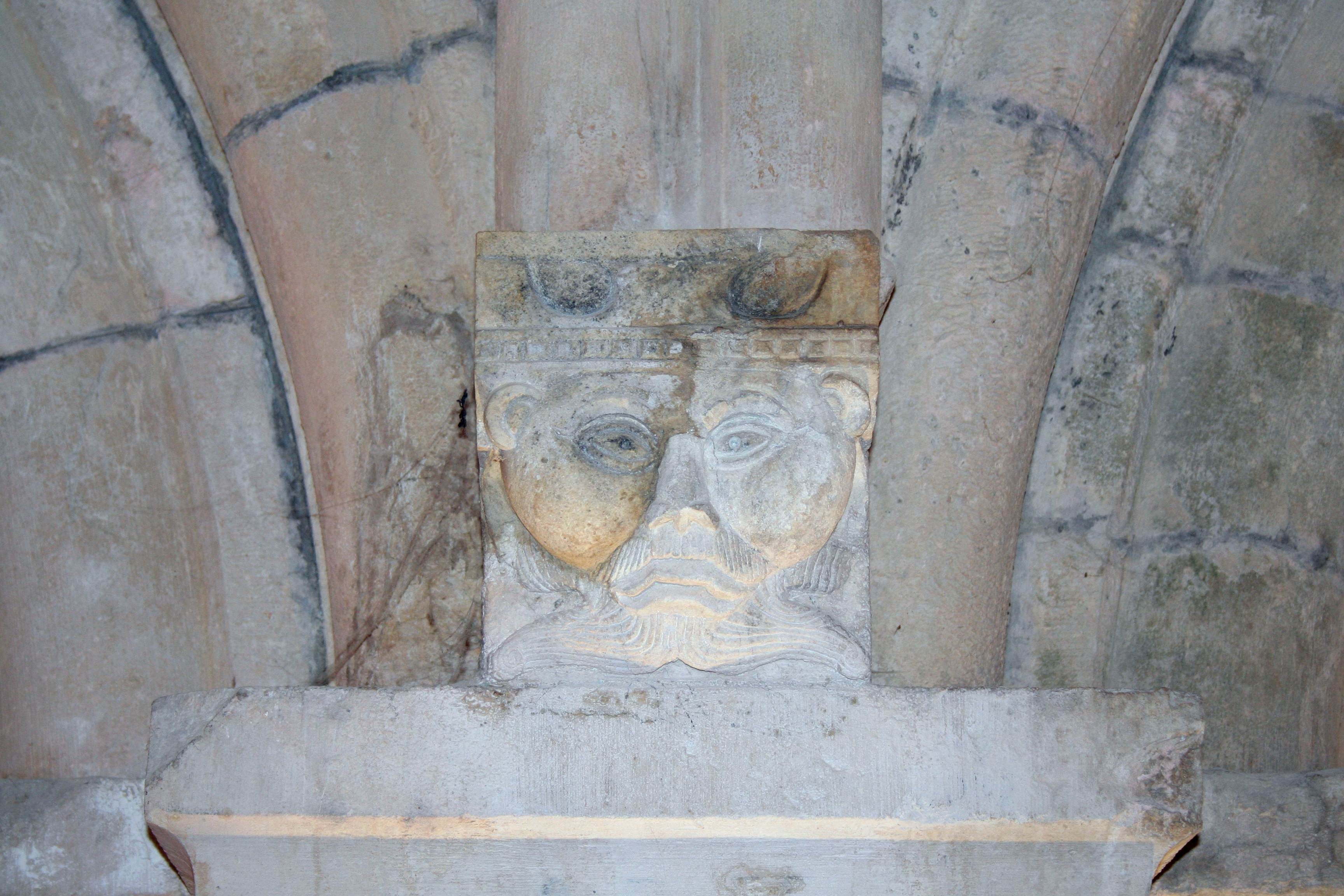 Simiane-La-Rotonde - Arch Bracket in the Castle Tower